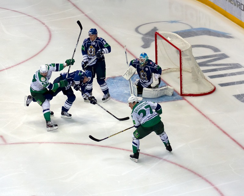 KHL game Amur Khabarovsk vs. Salavat Yulaev Ufa on September 24, 2011. Amur players in blue (LTR): Mikko Mäenpää, Alexander Osipov, Alexei Murygin. Salavat Yulaev players in white (LTR): Alexander Radulov, Igor Grigorenko.